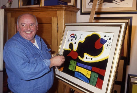 Konrad Kujau, author of the Hitler-Diaries, King of Forger and Fright of all Historians, in front of one of his Works. This photo was shot in 1992 in his Galerie in Stuttgart, Germany.